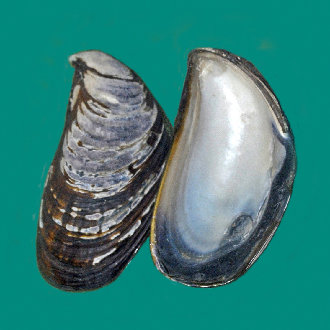 A view of valves of Choromytilus chorus, on display at the Museo Civico Craveri di Scienze Naturali - Bra